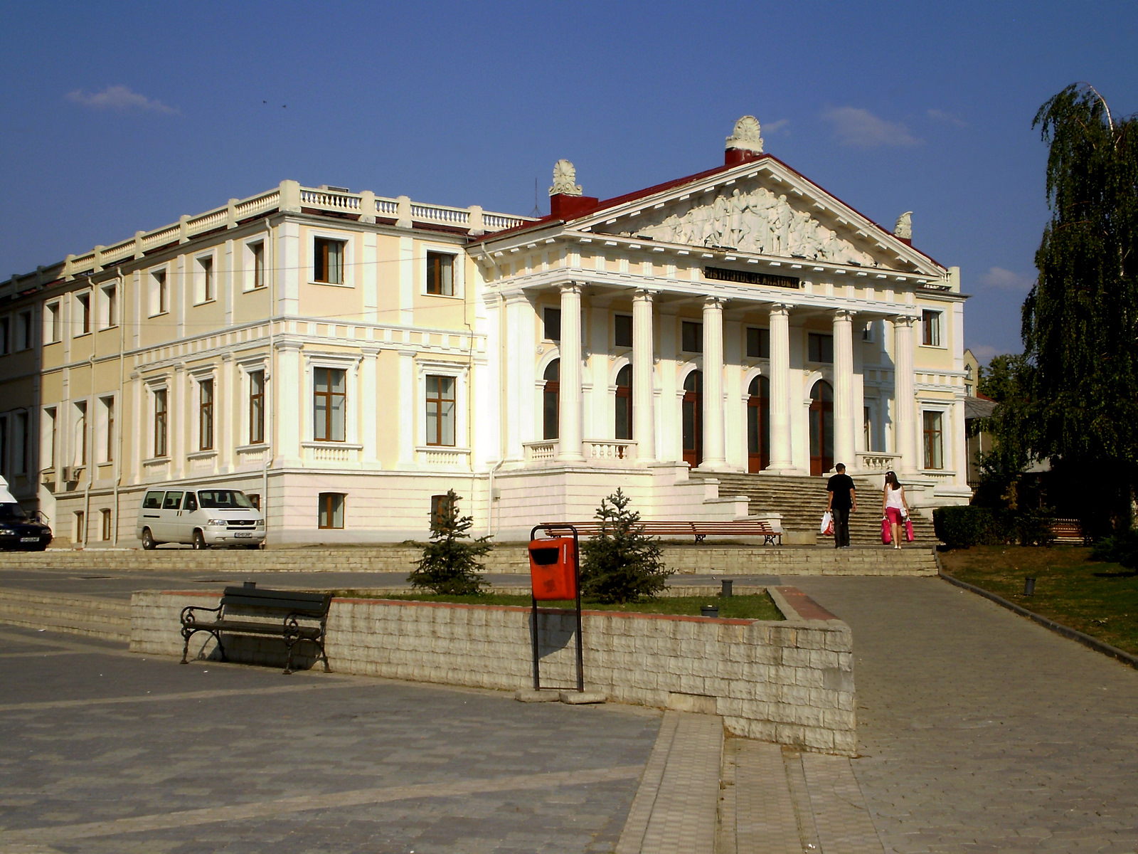 Iaşi , Institute of Anatomy , 1894 , Iaşi , Romania